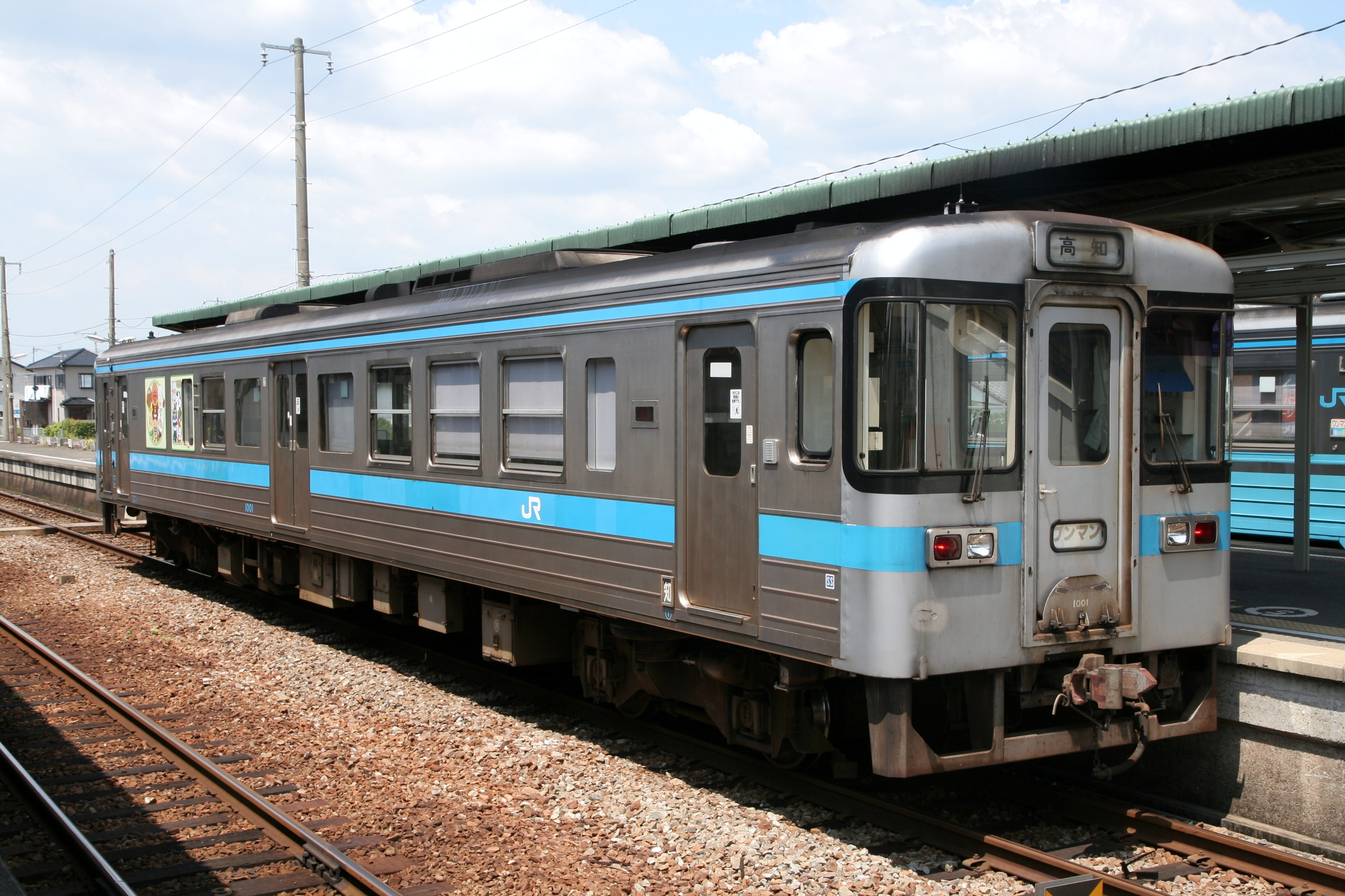 JR Shikoku 1000 series diesel railcar number 1001 at Gomen Station